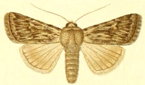 Image from Plate 7 of Die Gross-Schmetterlinge der Erde (The Macrolepidoptera of the World) Vol. 3